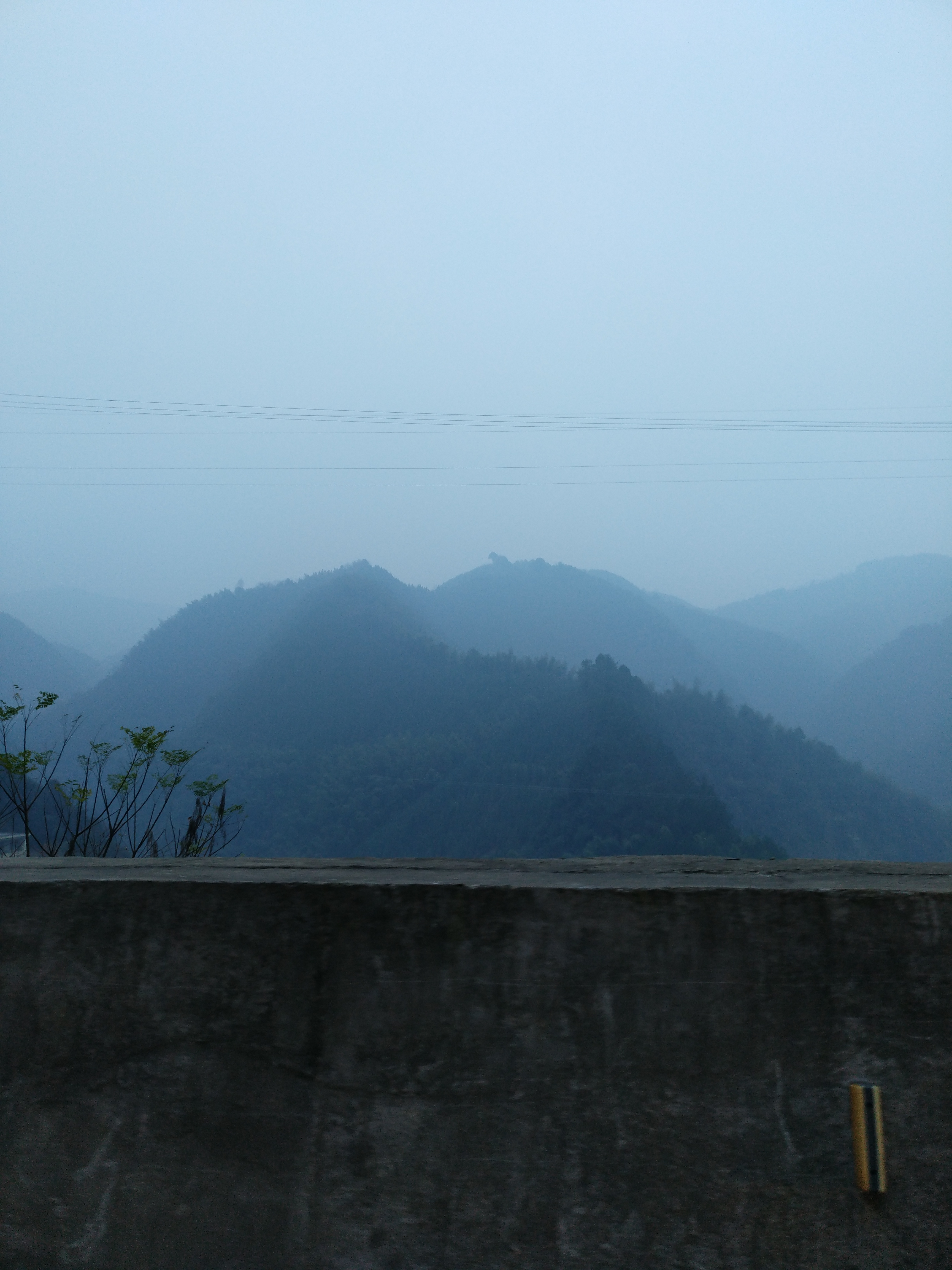 National Forest Park of Mount Yangming or Yangmingshan National Forest Park, is a national forest park located in Shuangpai County, Yongzhou, Hunan, China. 中文（中国大陆）: 阳明山国家森林公园，位于湖南省永州市双牌县。